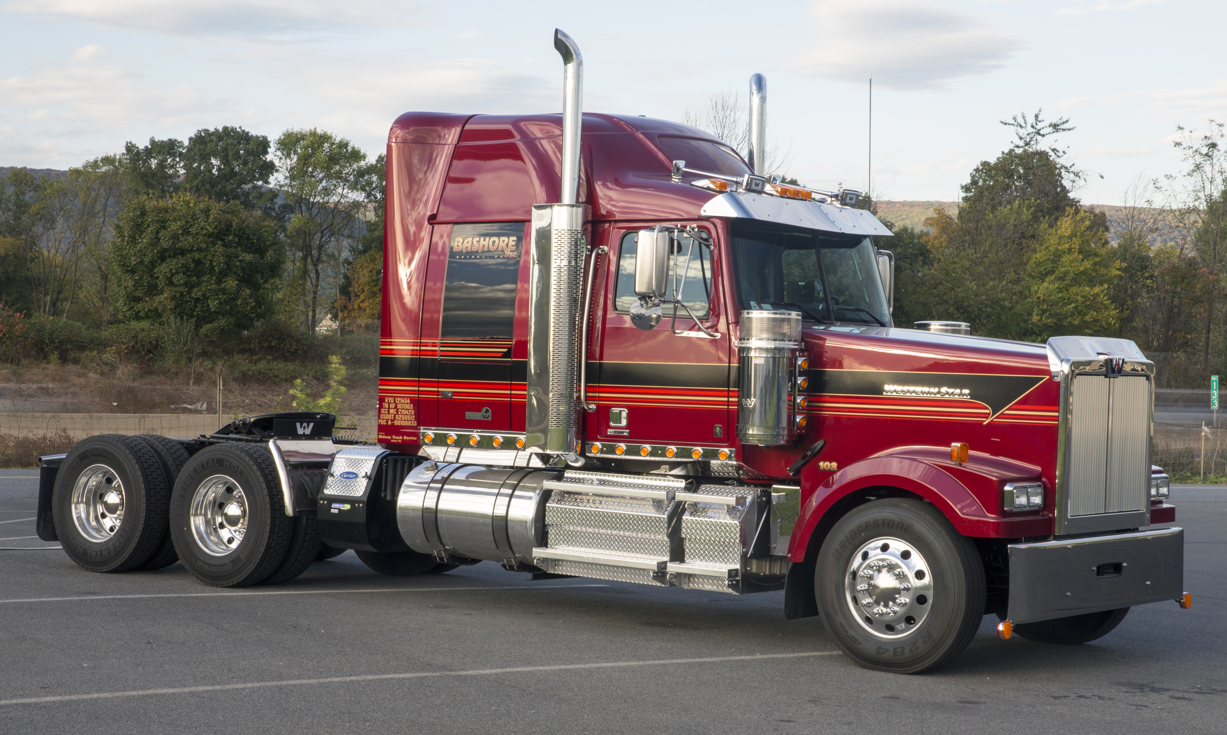 A Western Star W4900EX tractor unit with Detroit Diesel engine and a Stratosphere sleeper in Bethel, PA.